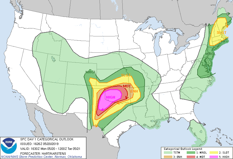 SPC's Day 1 convective outlook issued at 16:30 UTC on May 20, 2019, indicating a High risk over portions of Texas and Oklahoma.